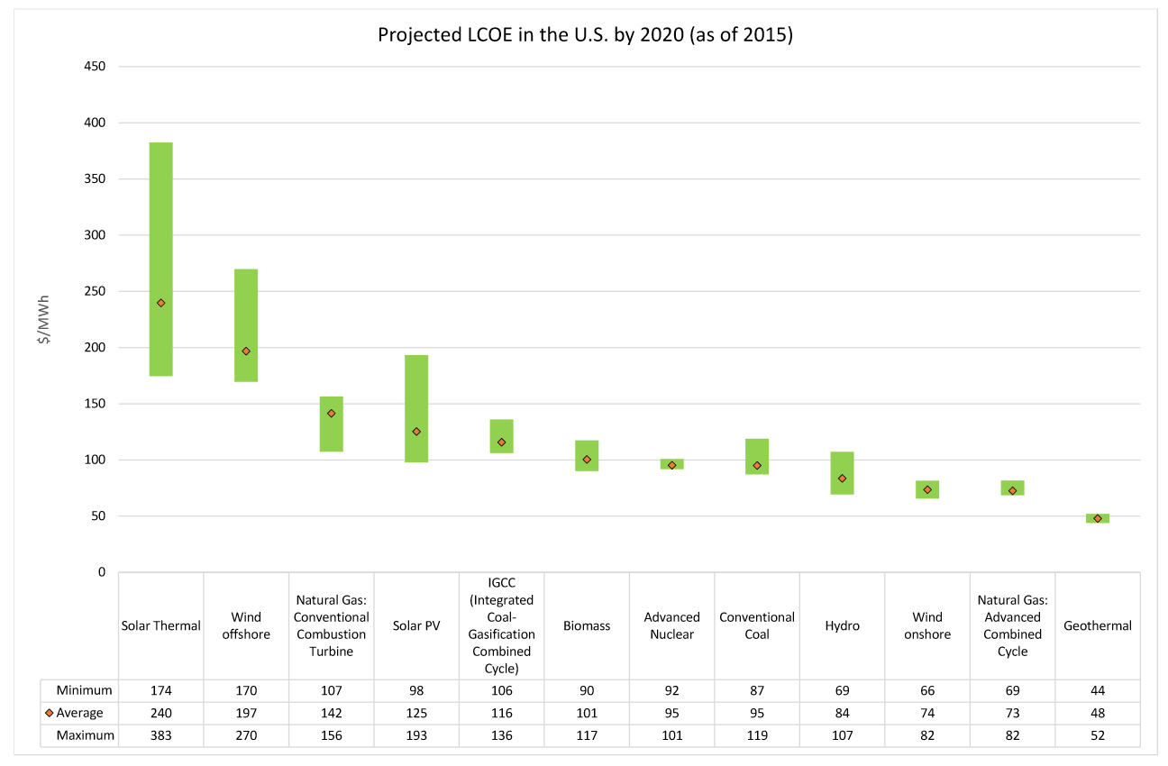 Projected LCOE in the U.S. by 2020 (as of 2015)